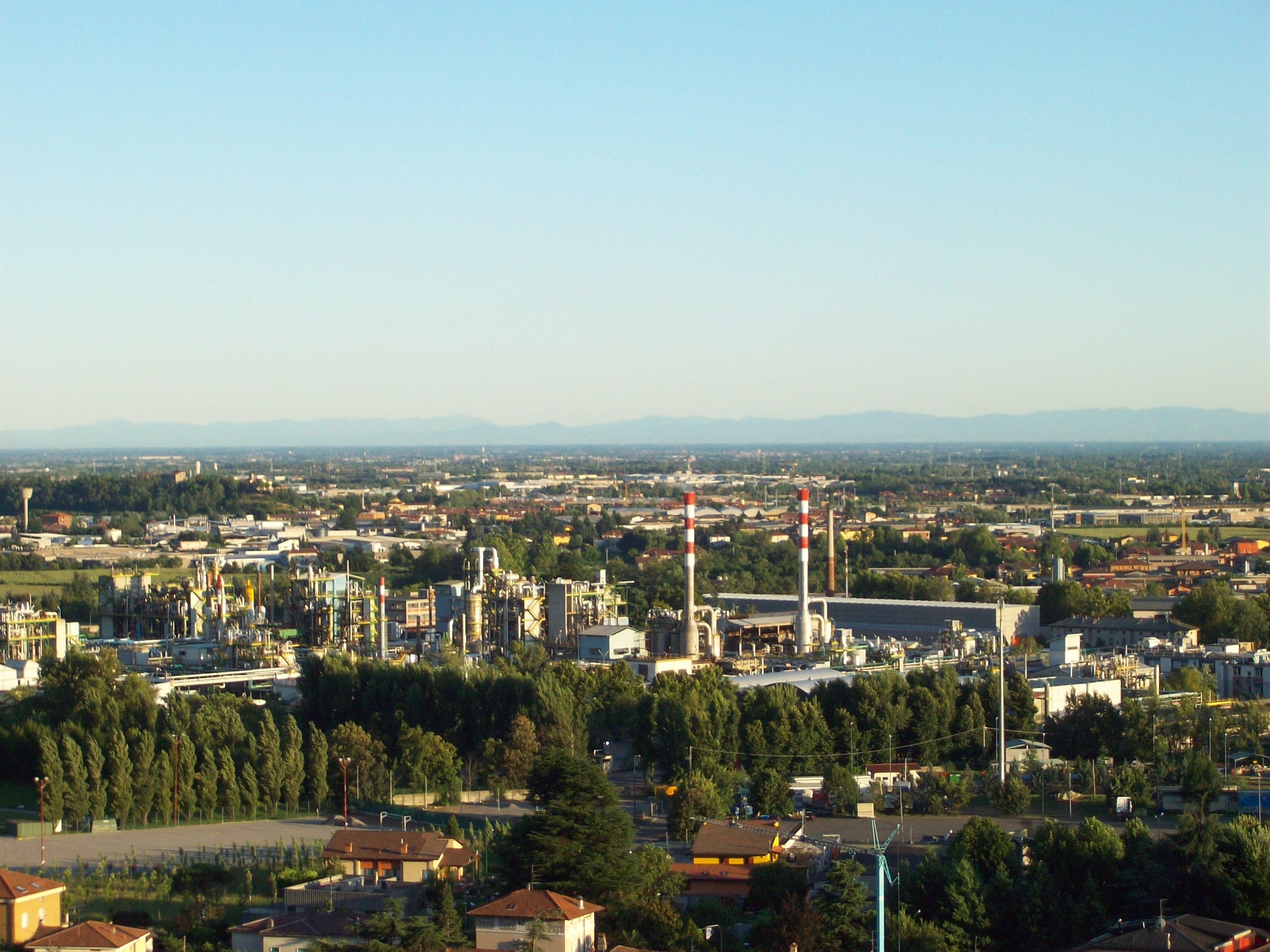 The Chemical factory between Rosciate and Pedrengo